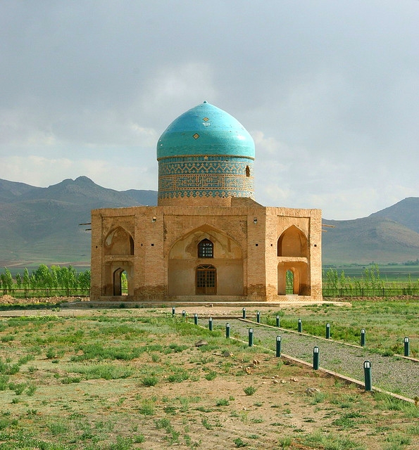 Molla Hassan Kashi Mausoleum, Zanjan, Iran